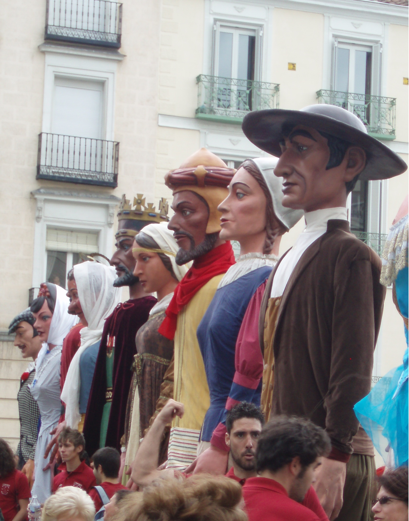 The troupe of giants and big heads of Madrid, hoping to start business in the Plaza de Santo Domingo (2010)